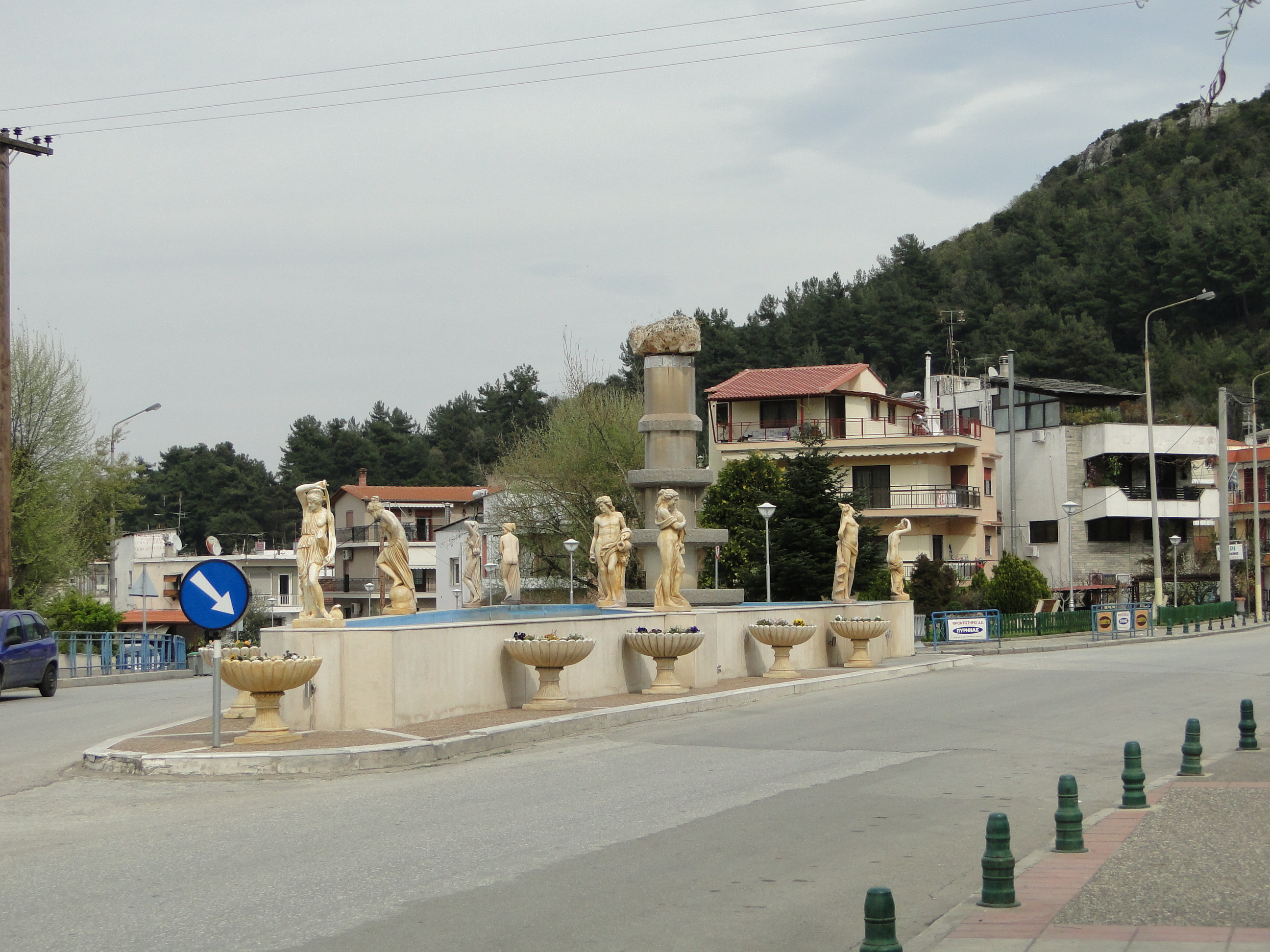 Eleutheroupoli.